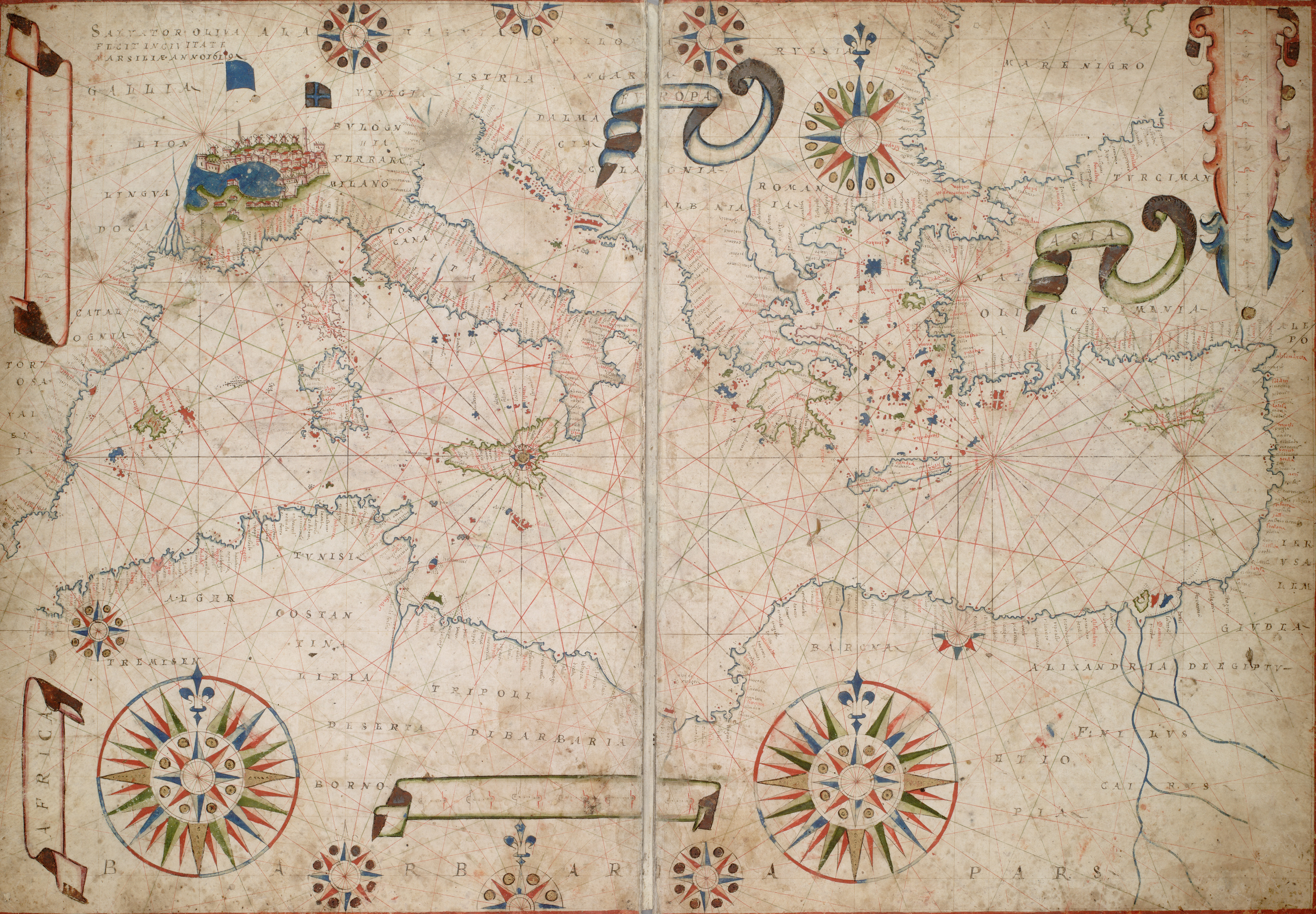 Mediterranean. HM 2515. PORTOLAN ATLAS. Marseilles, 1619 Call Number: HM 2515 Folio: f. 1 Description: Mediterranean.